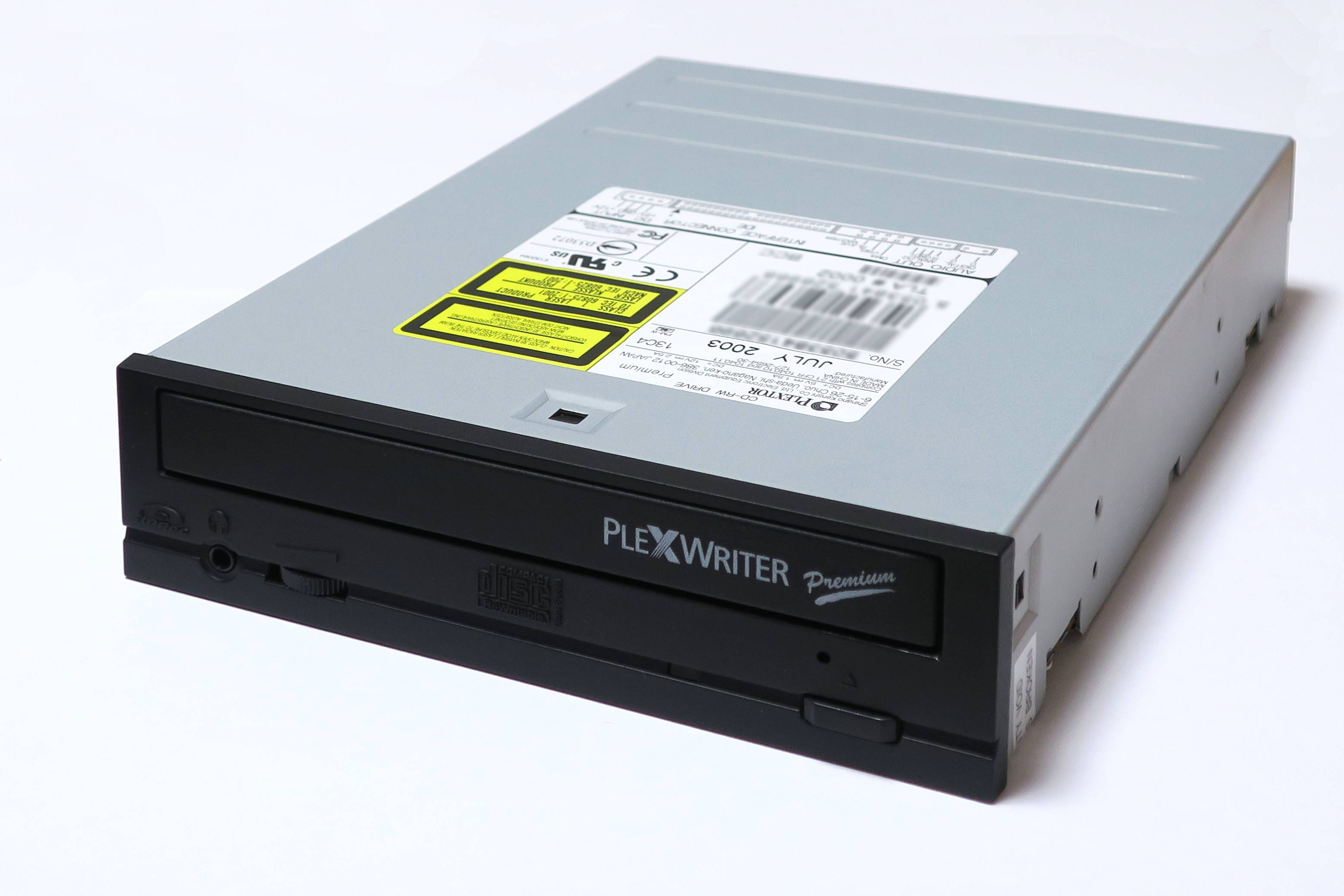 Shinano Kenshi Plextor PlexWriter Premium CD-RW drive.